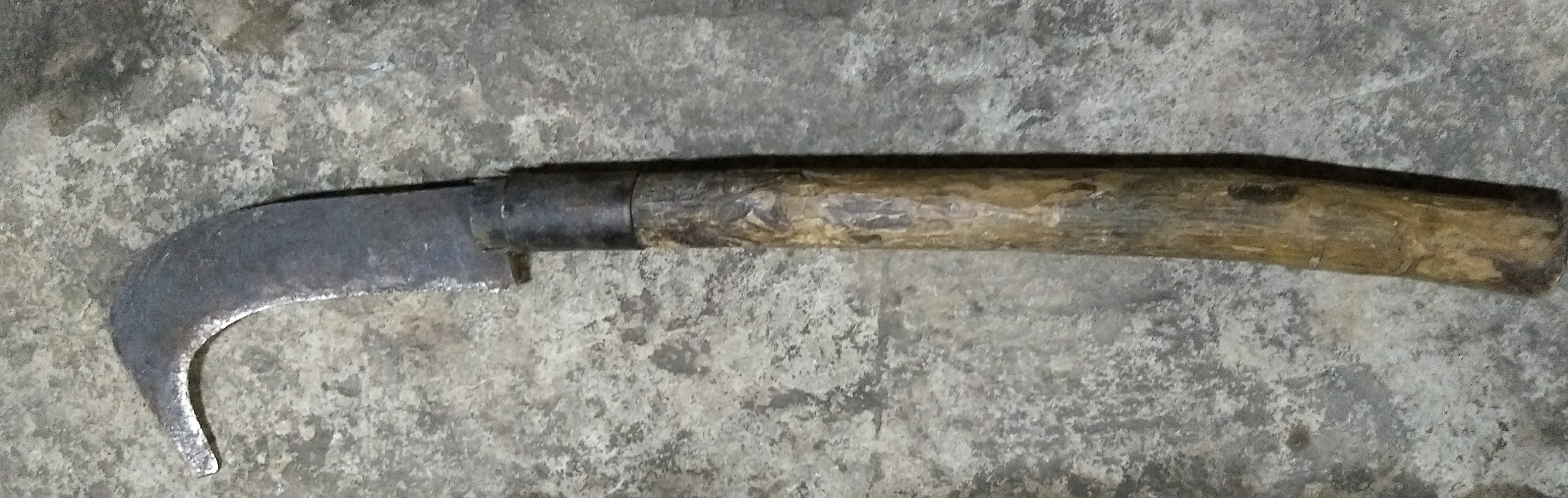 Tsakat, an Armenian tool used much like a machete.